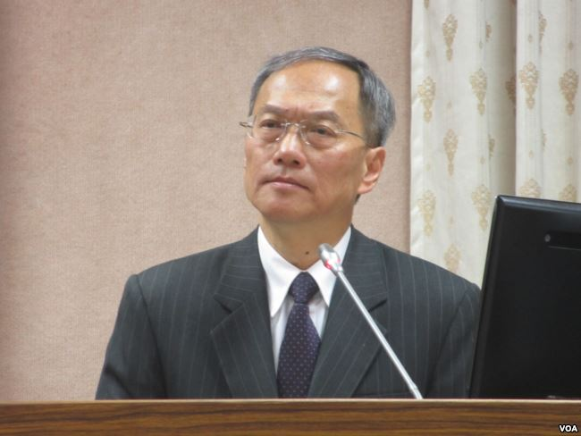 Wu Hsin-hsing, Minister of the Overseas Community Affairs Council (OCAC) in Taiwan.